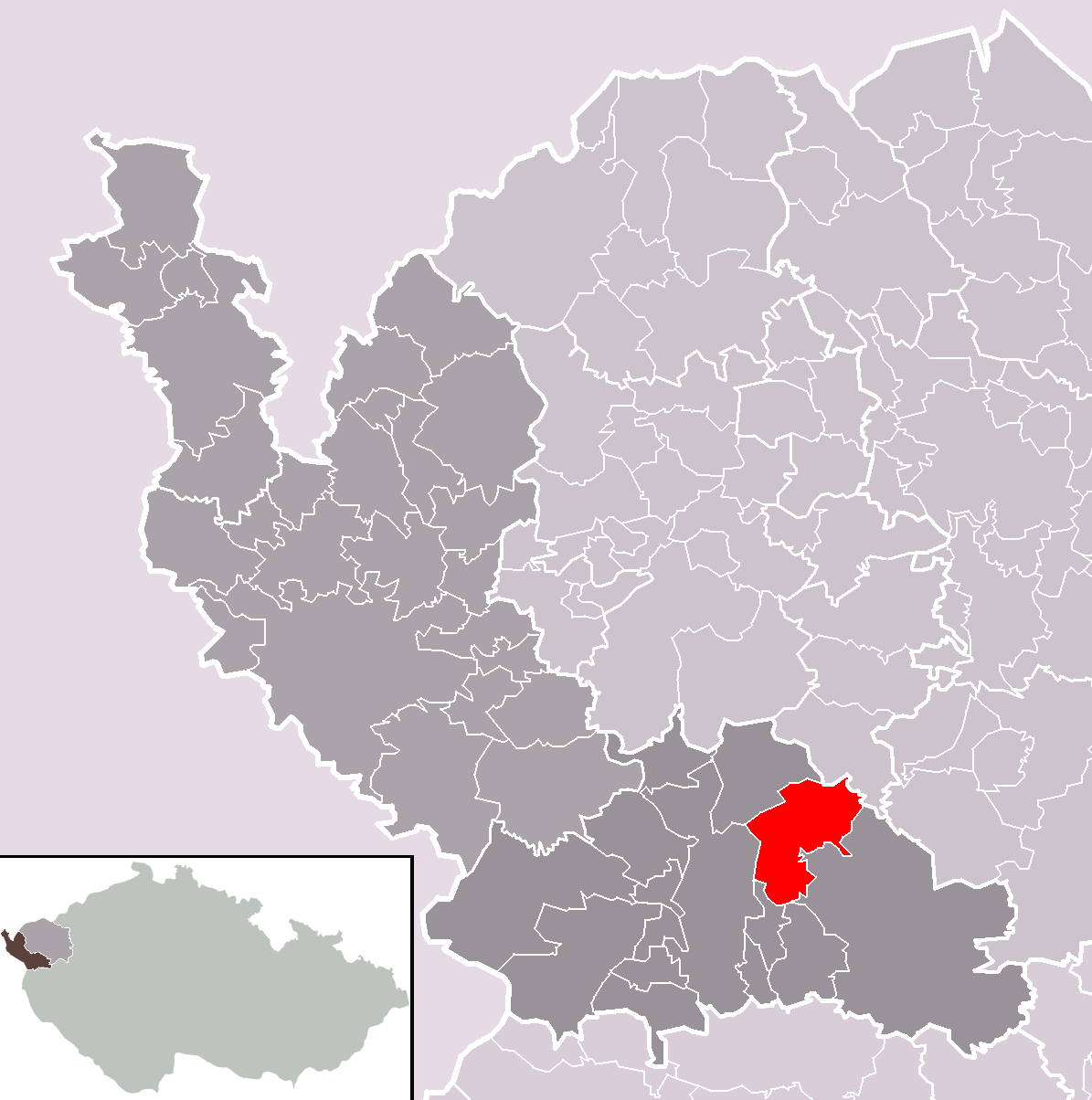 Location of Mnichov municipality within Cheb District and administrative area of Mariánské Lázně as a Municipality with Extended Competence.